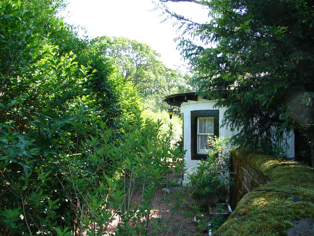 Dinwoodie Toll House - Bow Front Only possible view (until hedges cut) of the bow-front of 1822-3 Telford toll-house.